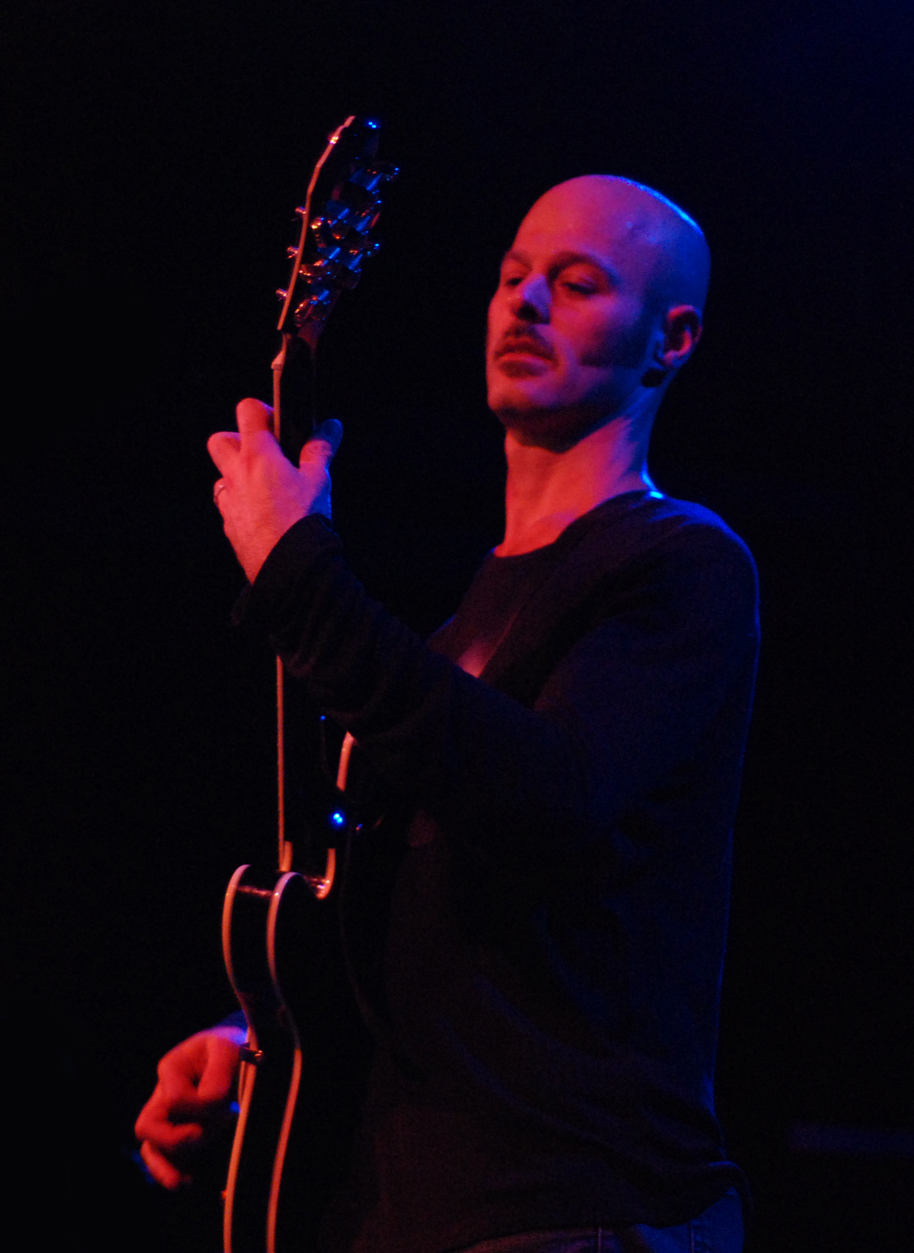 Musician Craig Wedren performing at the Bowery Ballroom. Cropped and edited to remove some background objects.